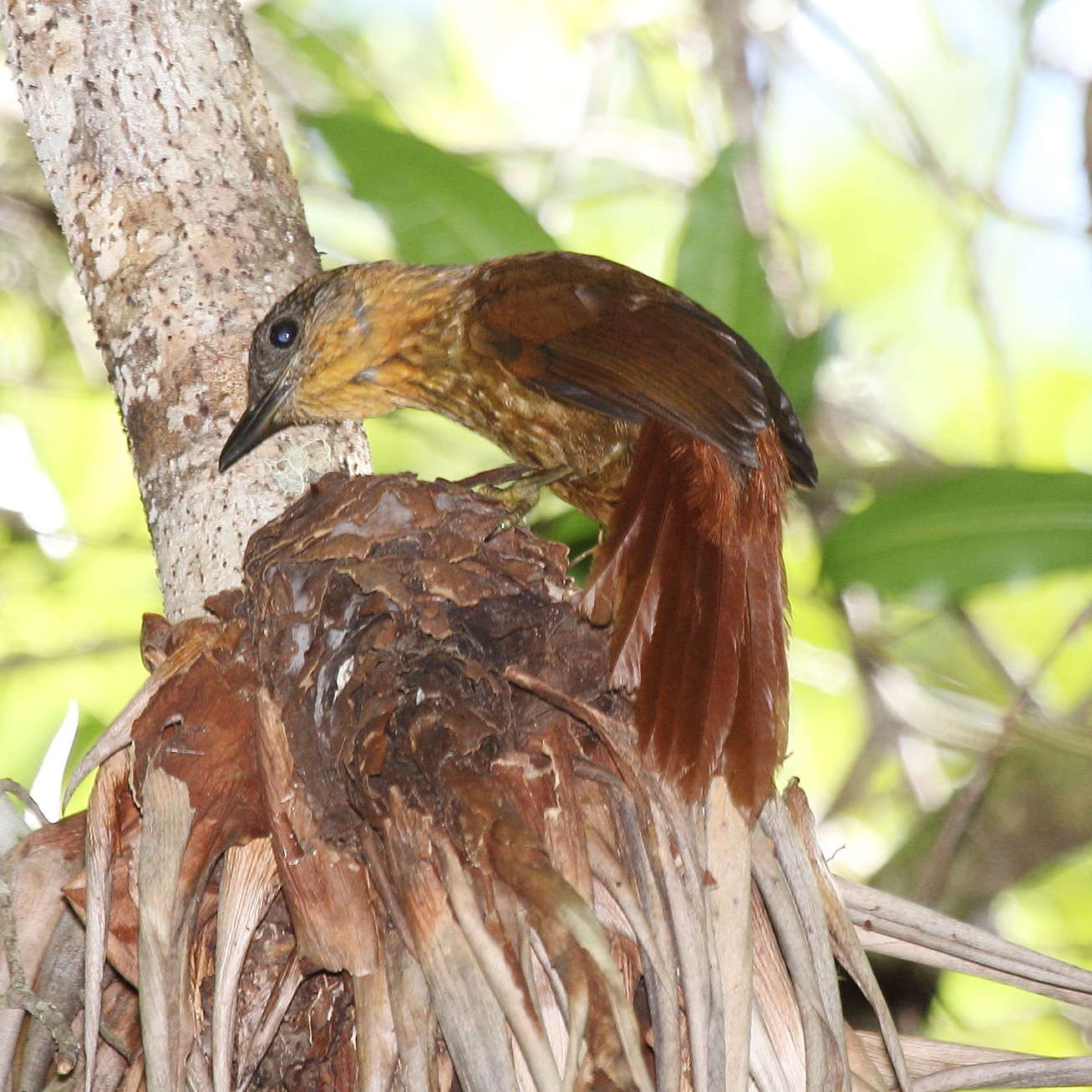 Streak-breasted Treehunter (Thripadectes rufobrunneus) Tobosi, Cartago, Costa Rica